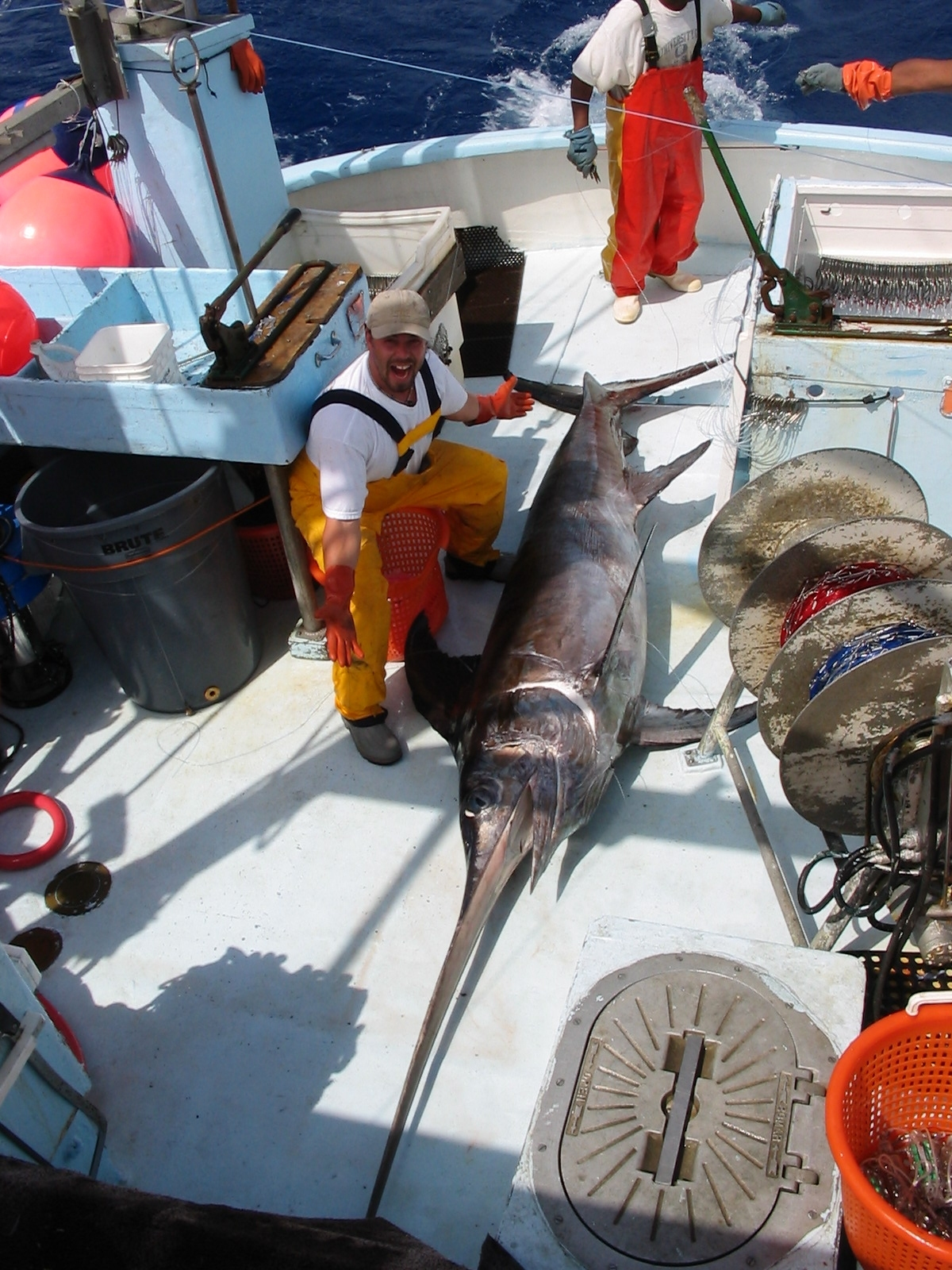 Large swordfish (Xiphias gladius) on deck during long-lining operations